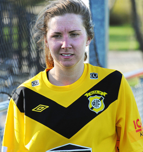 Louise Fors playing for Älta IF in April 2014